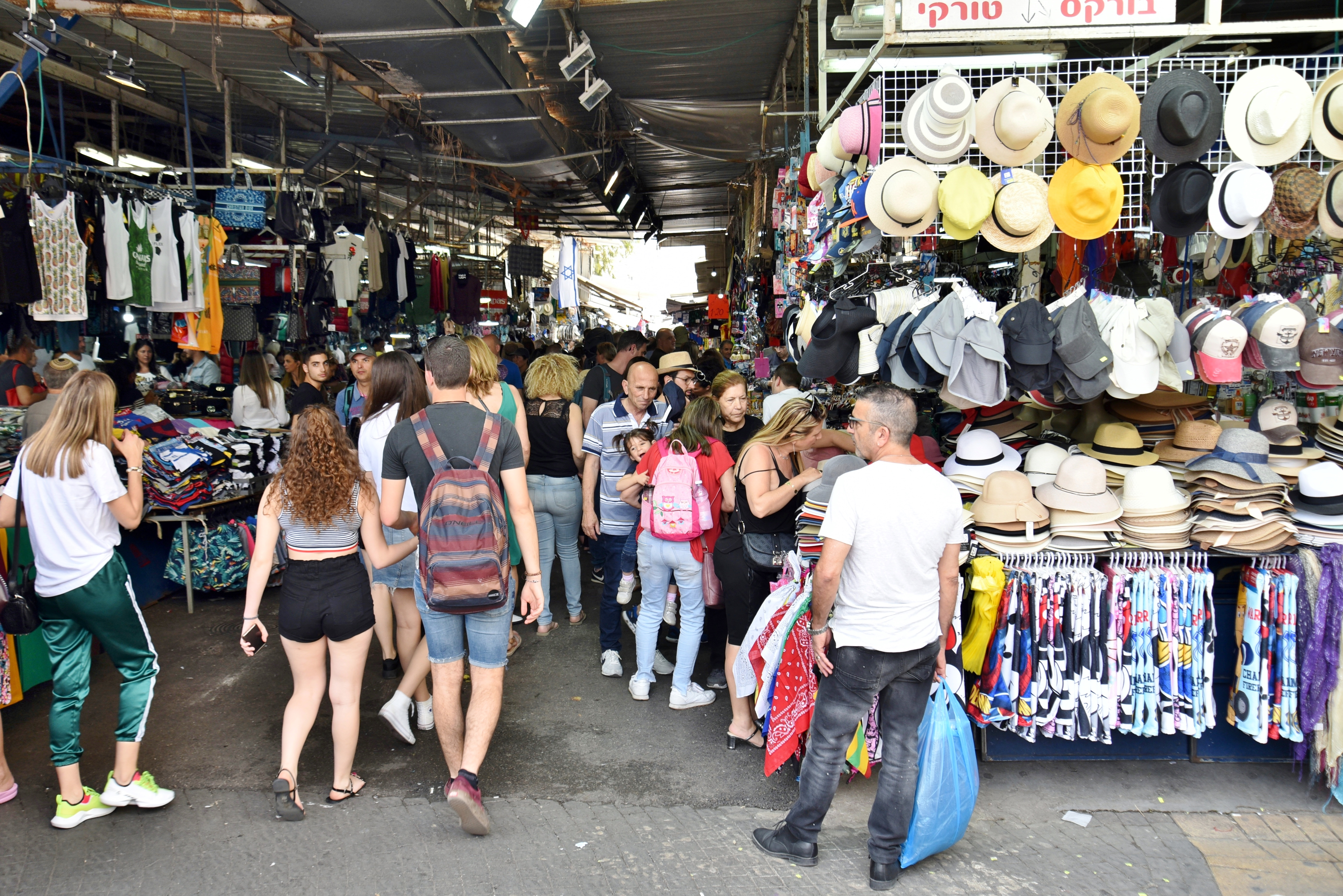 View of the HaCarmel Street entrance to Carmel Market from Magen David Square, Tel Aviv, Israel